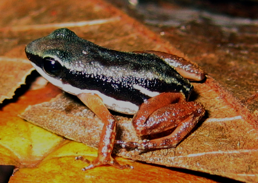 Silverstoneia flotator (Rocket frog), a cryptically colored dendrobatid frog from Hitoy Cerere Biological Reserve, southern Costa Rica.